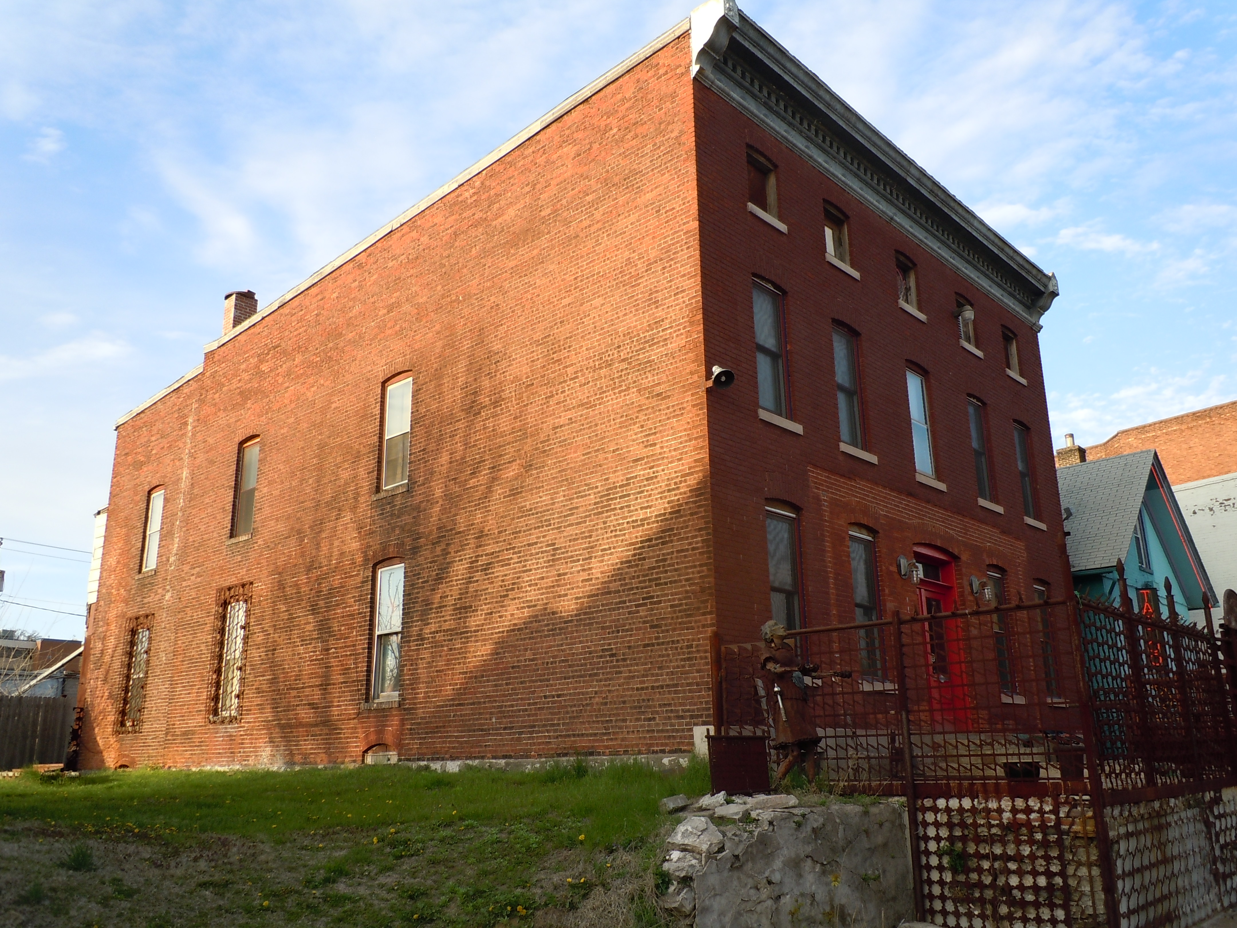 This building is located at 620 W. Third St., Davenport, Scott County, Iowa. It is a contributing property in the West Third Street Historic District.